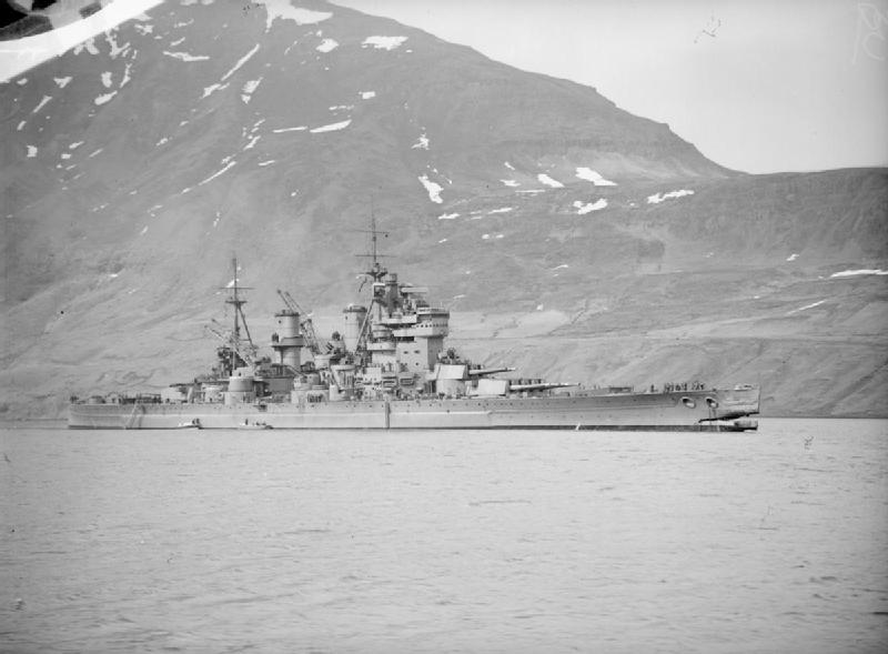 IWM caption : HMS KING GEORGE V, photographed with a huge hole in the bows against a mountainous backdrop,after the battleship had collided with HMS PUNJABI in dense fog on 1 May 1942, at Seidesfjord, Iceland. HMS PUNJABI was cut in half and lost. HMS KING GEORGE V was taken for repair to Gladstone dock, Liverpool (photographed from the destroyer HMS WHEATLAND).